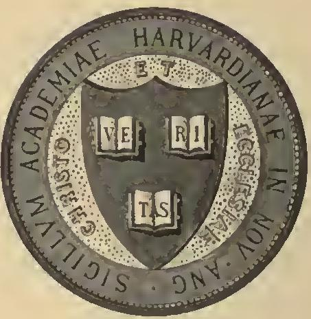 logo picture